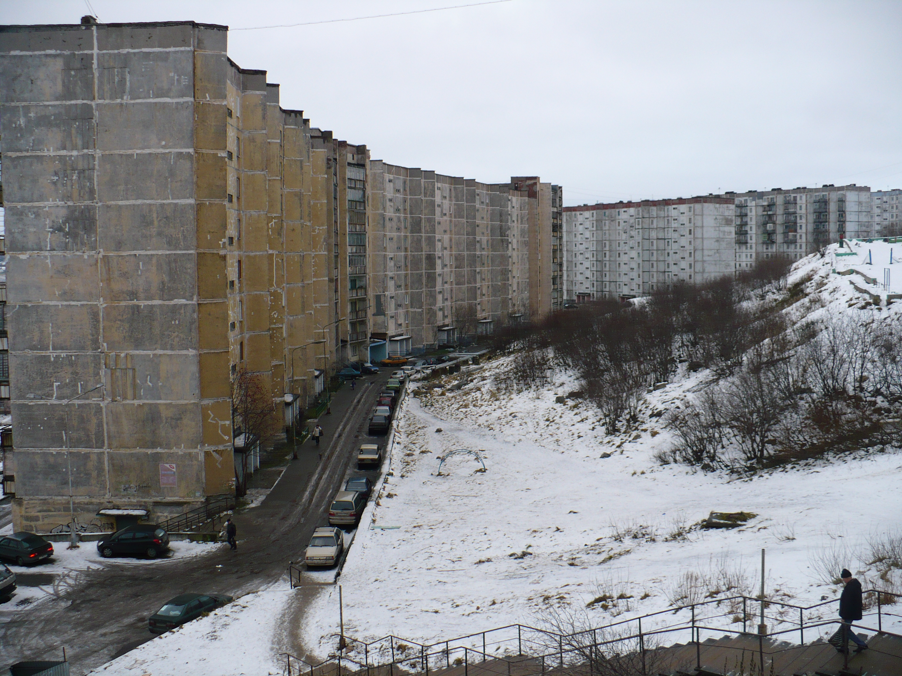 Blocks of flats in Severomorsk.